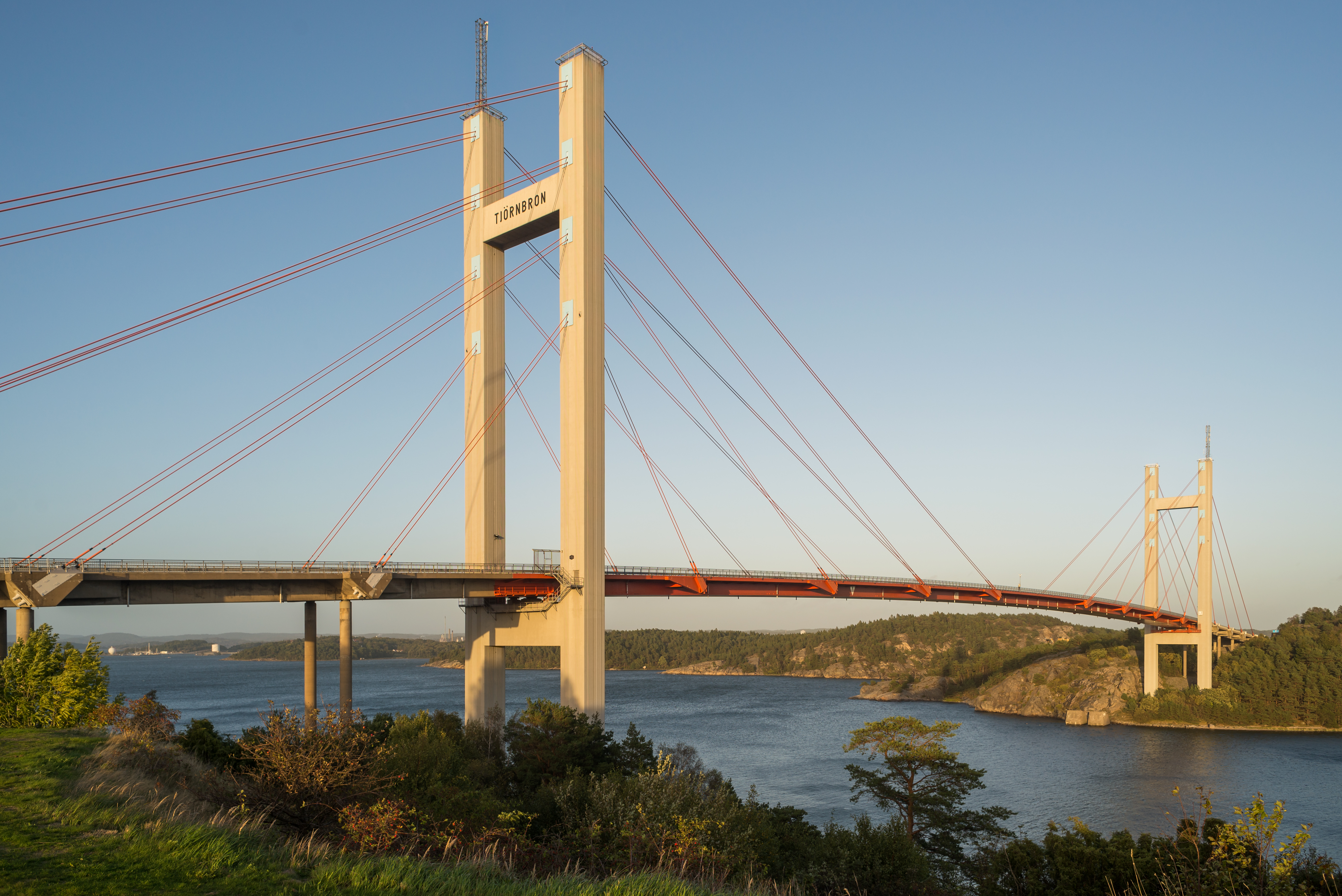 Tjörnbron (the Tjörn bridge). Tjörnbron is one of three bridges along Tjörnbroleden that connects the islands of Tjörn and Orust to the mainland. Inaugurated in 1981, the bridge was built in record time after its predecessor, the Almö Bridge, which was inaugurated in June 1960, collapsed after the bulk carrier MS Star Clipper collided with its span on 18 January 1980.